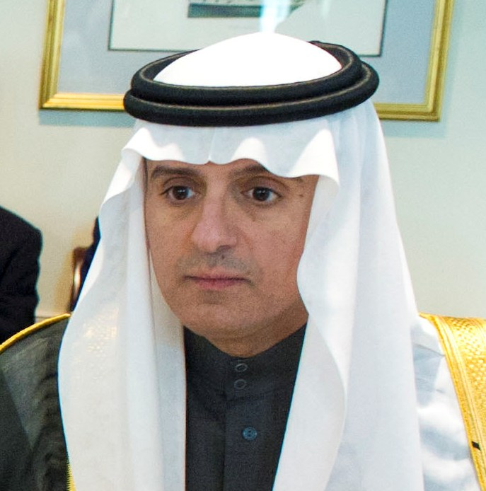 Saudi ambassador to USA HIS HIGHNESS MR. ADEL AL JUBBER